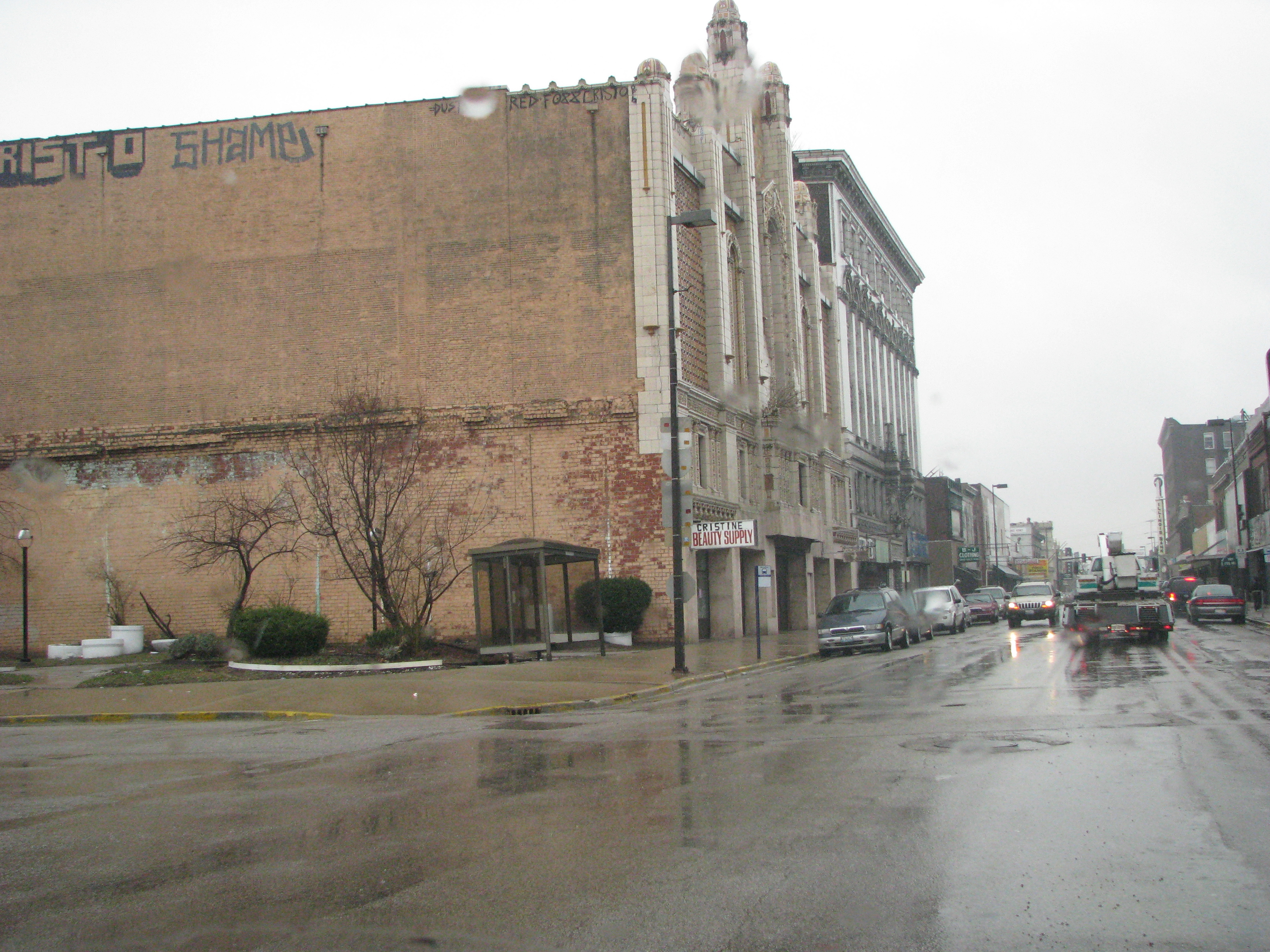 The Majestic Theatre on Collinsville Avenue in East St. Louis.